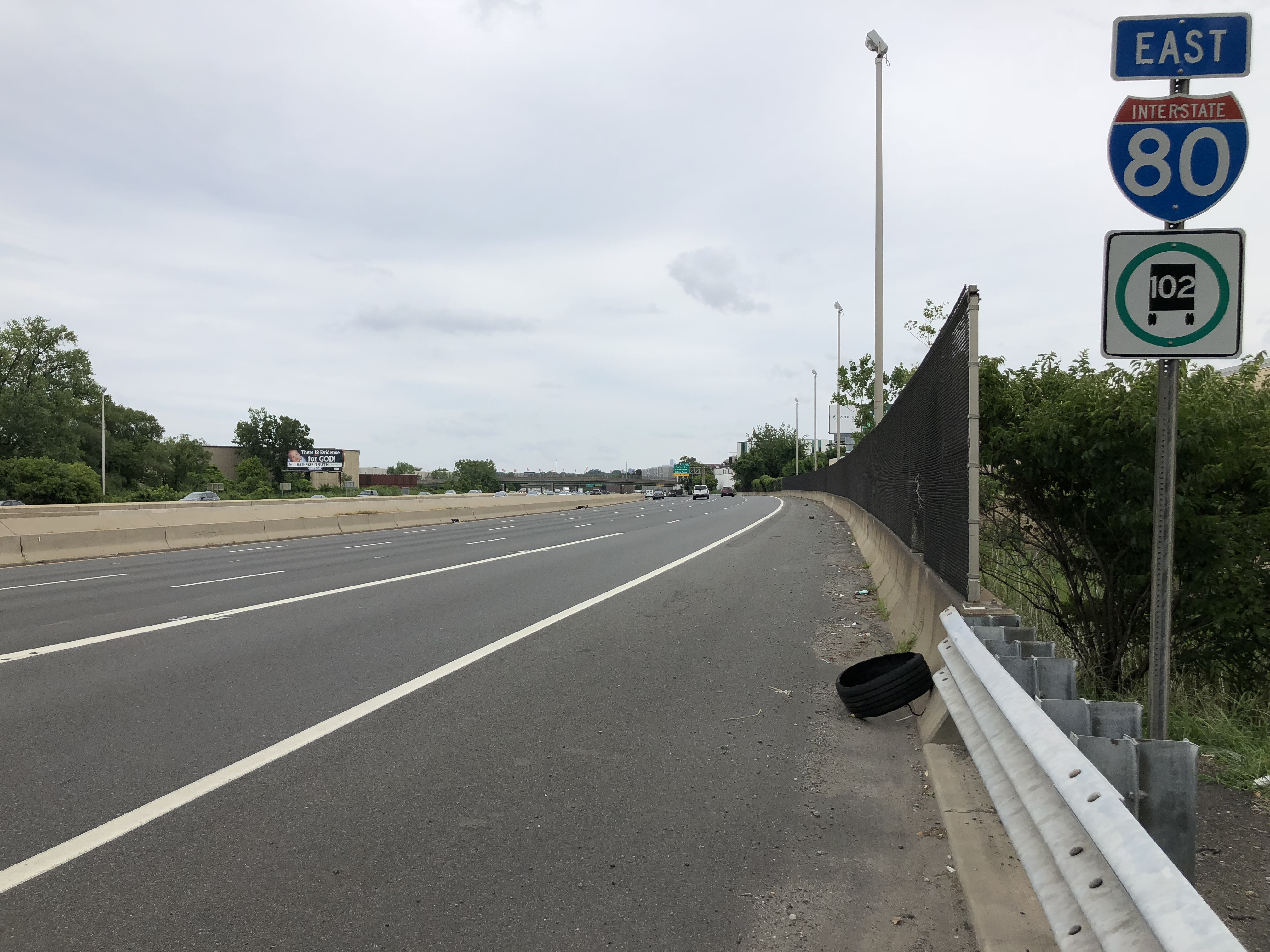 View east along Interstate 80 (Bergen-Passaic Expressway) just east of Exit 65 in Teterboro, Bergen County, New Jersey